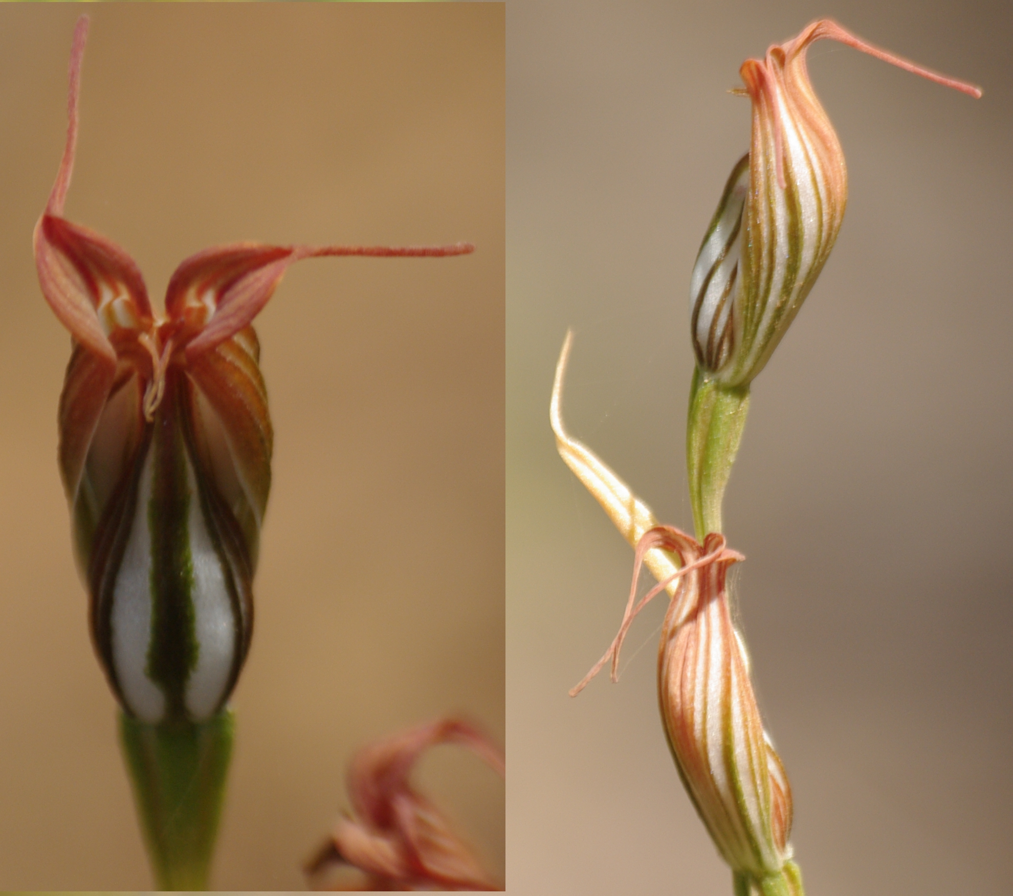 Pterostylis recurva front view sightly overhead and side view, taken nea Canning Dam